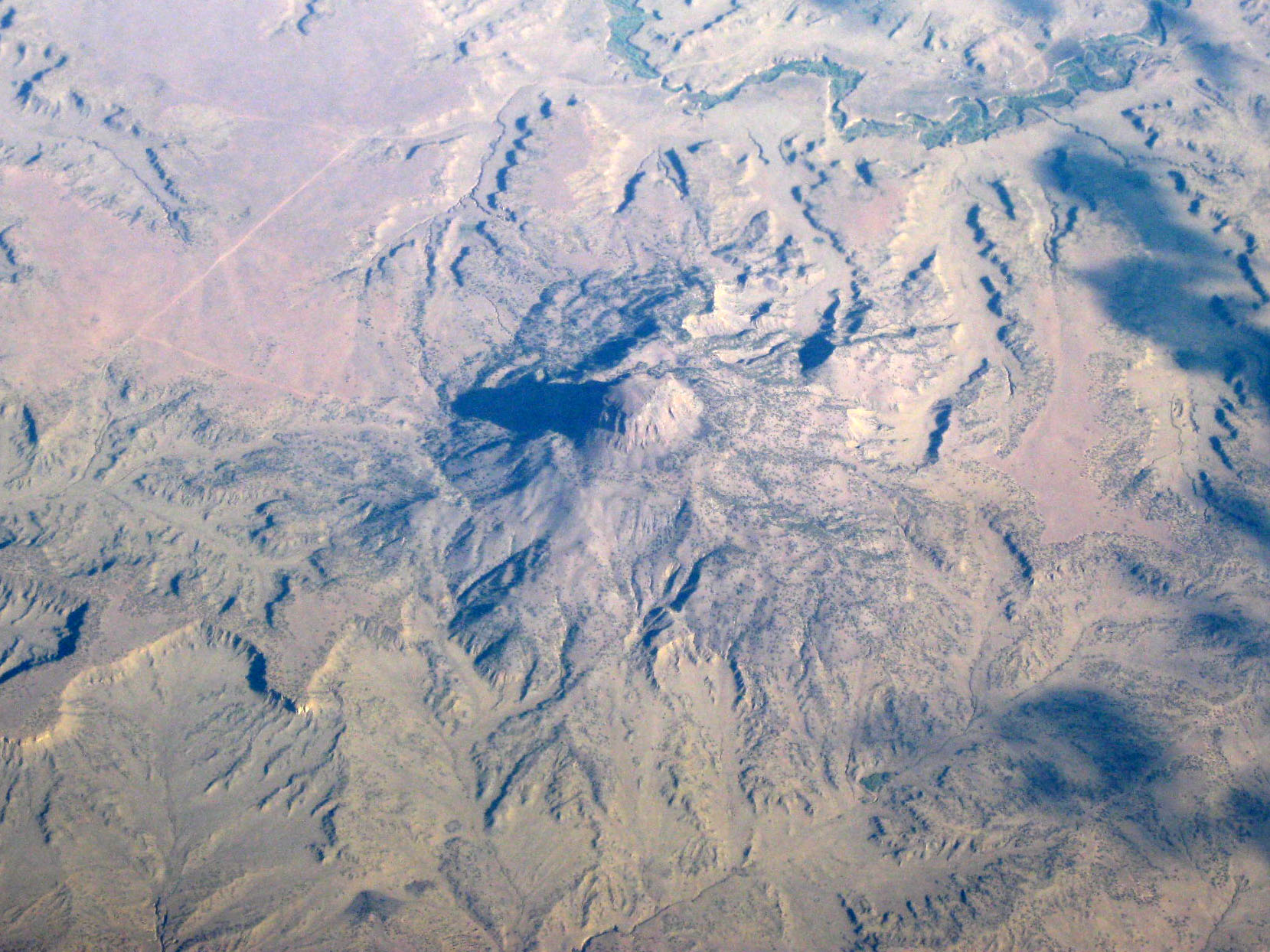 Oblique air photo of Cabezon Peak, New Mexico. Facing north. 1 August 2011. Contrast enhanced in Photoshop.